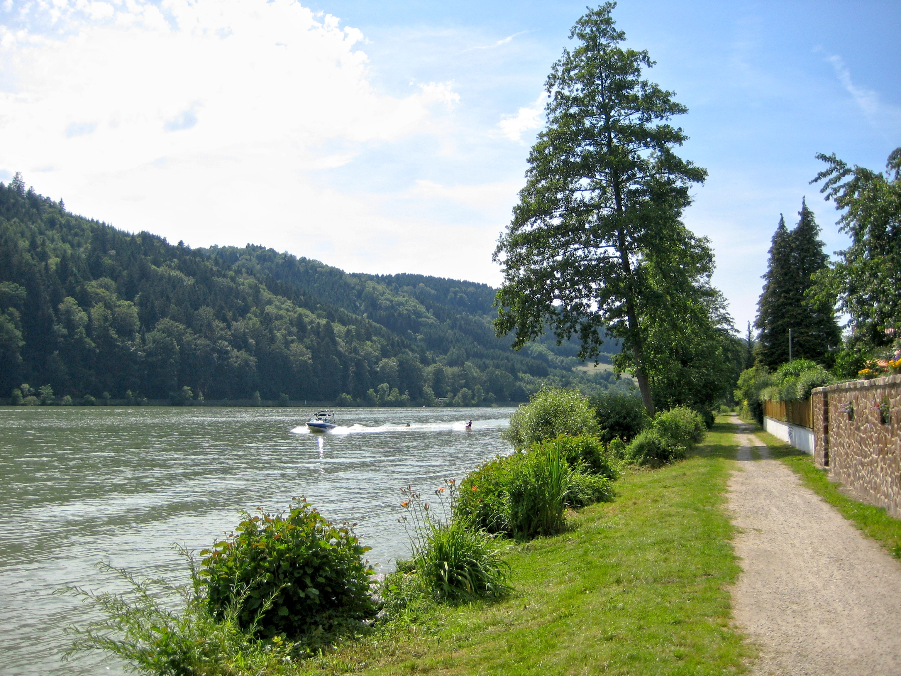 Danube Bike Trail in Obernzell